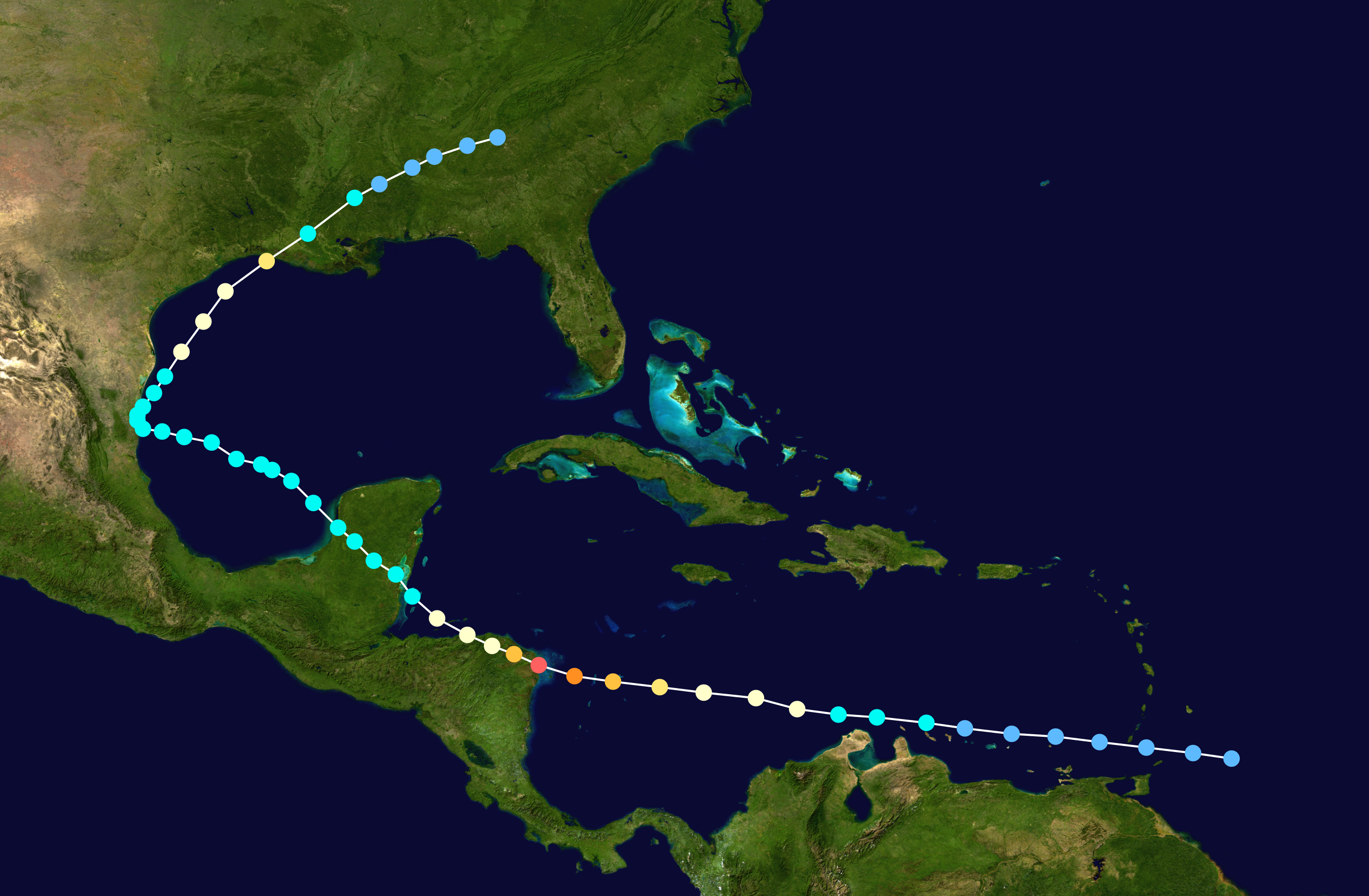 Hurricane Edith (1971) track. Uses the color scheme from the Saffir-Simpson Hurricane Scale.